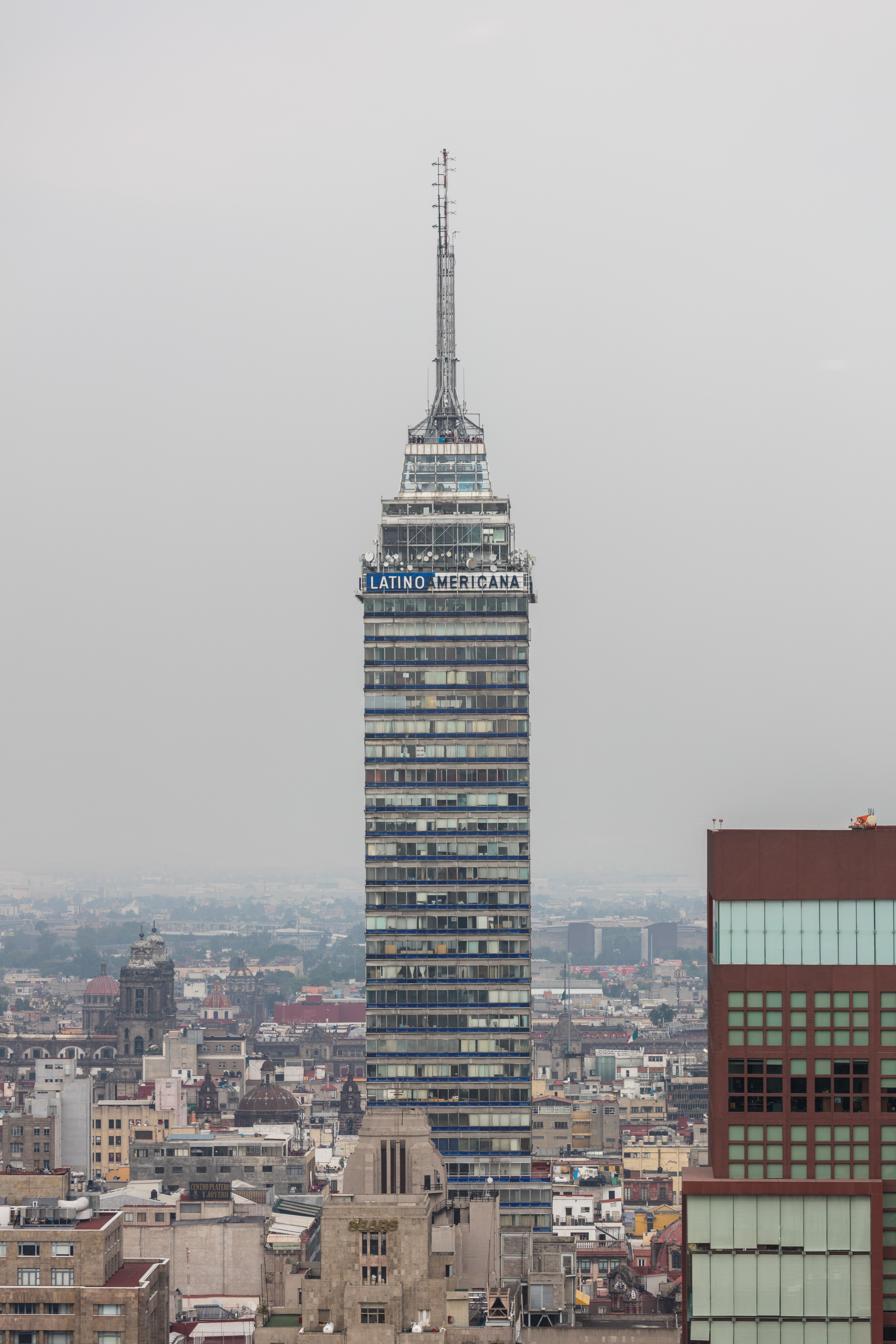 Latinoamericana Tower, Mexico City, Mexico